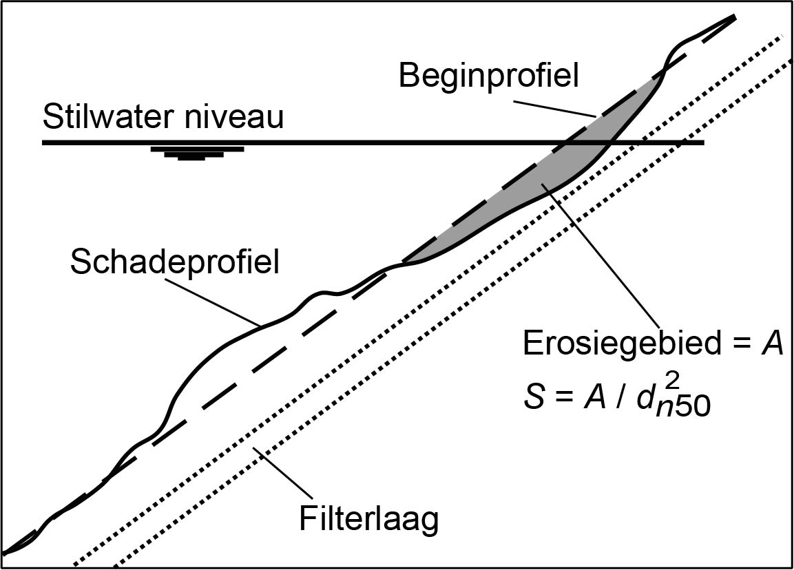 Definition of the damage area in the Van der Meer formula